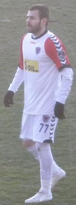 Spas Delev, Bulgarian footballer